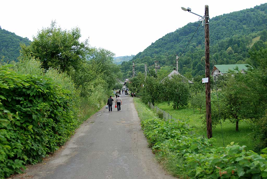 Bistra (Maramureş) - Crasna Viseului